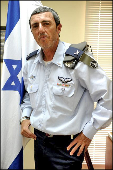 Brigadier General Rabbi Rafi Peretz, the IDF Chief Military Rabbi